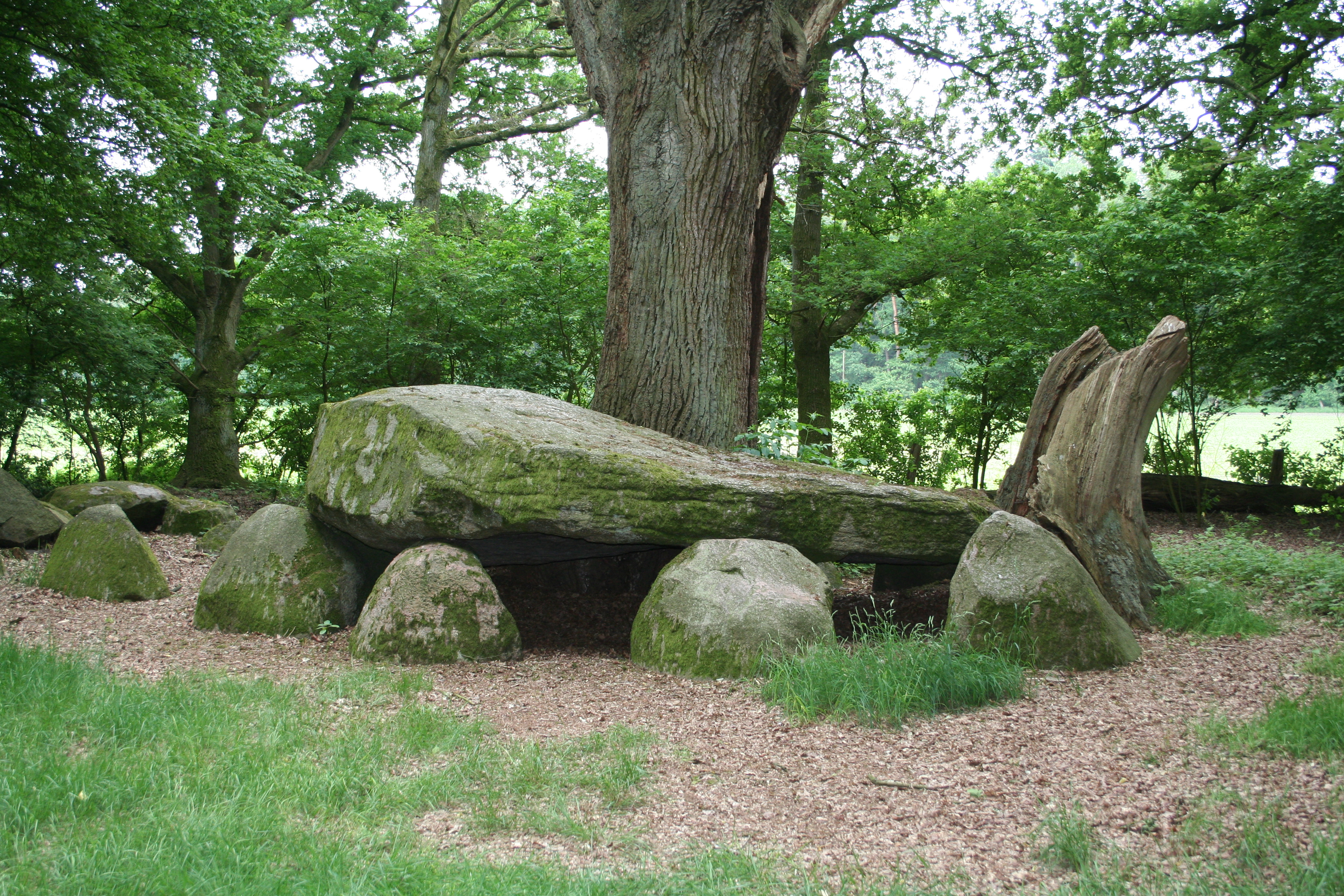 Megalithic tomb “Heidenopfertisch” at Engelmannsbäke